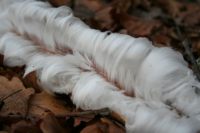 A mystery of Nature on Altyre Estate At first we thought it was a piece of shredded fabric that clung to several twigs on the ground. A closer inspection gave the impression that it was in fact a fungal growth. The mystery substance only appeared on twigs of which the bark was broken or absent. On contact with the hand it was found that the cotton wool like material melted immediately which showed that it was in fact an ice formation but how do you explain its formation? I'd love to know.